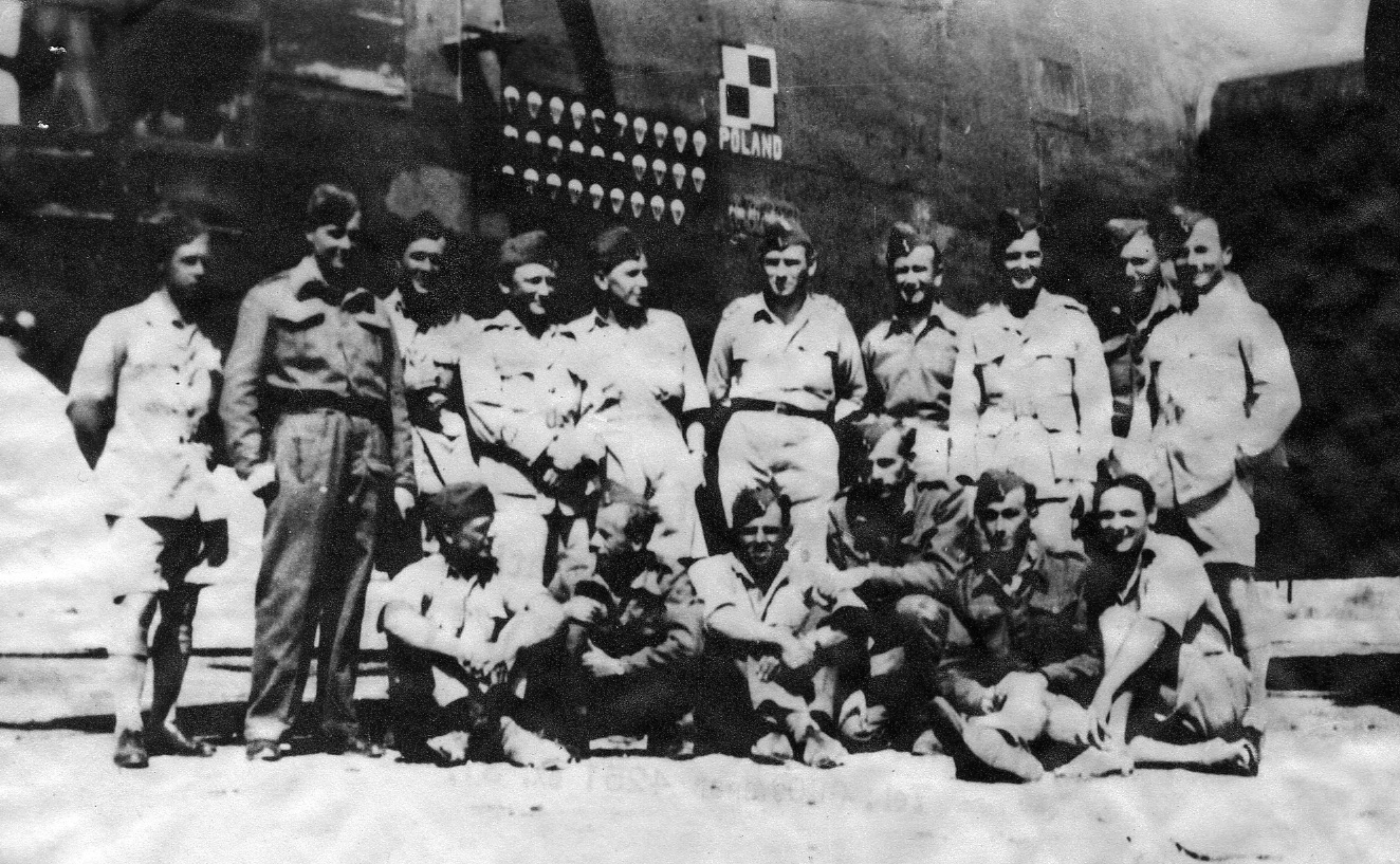 The crew of the Polish Halifax bomber ( Bomber Command of British RAF), which just return from flight over Warsaw,Brindisi airfield, August 1944 (airdrops for Warsaw Uprising)